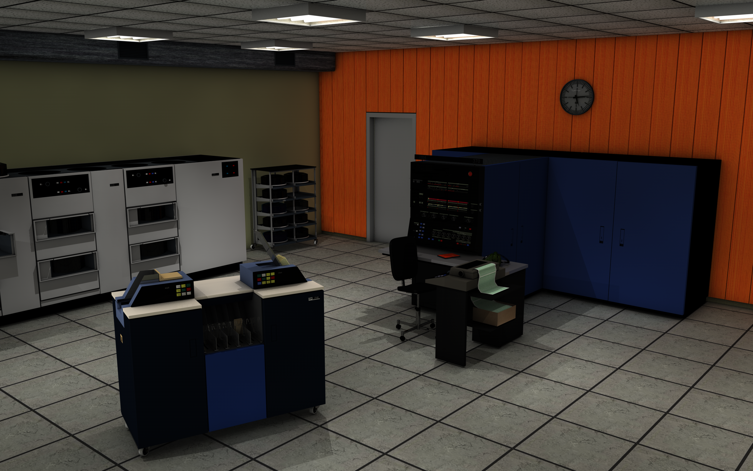 Model of an historical data center with IBM System/370 Model 145 computer and console, IBM 3330 disk drives and IBM 2540 punch card reader and punch, c. 1974